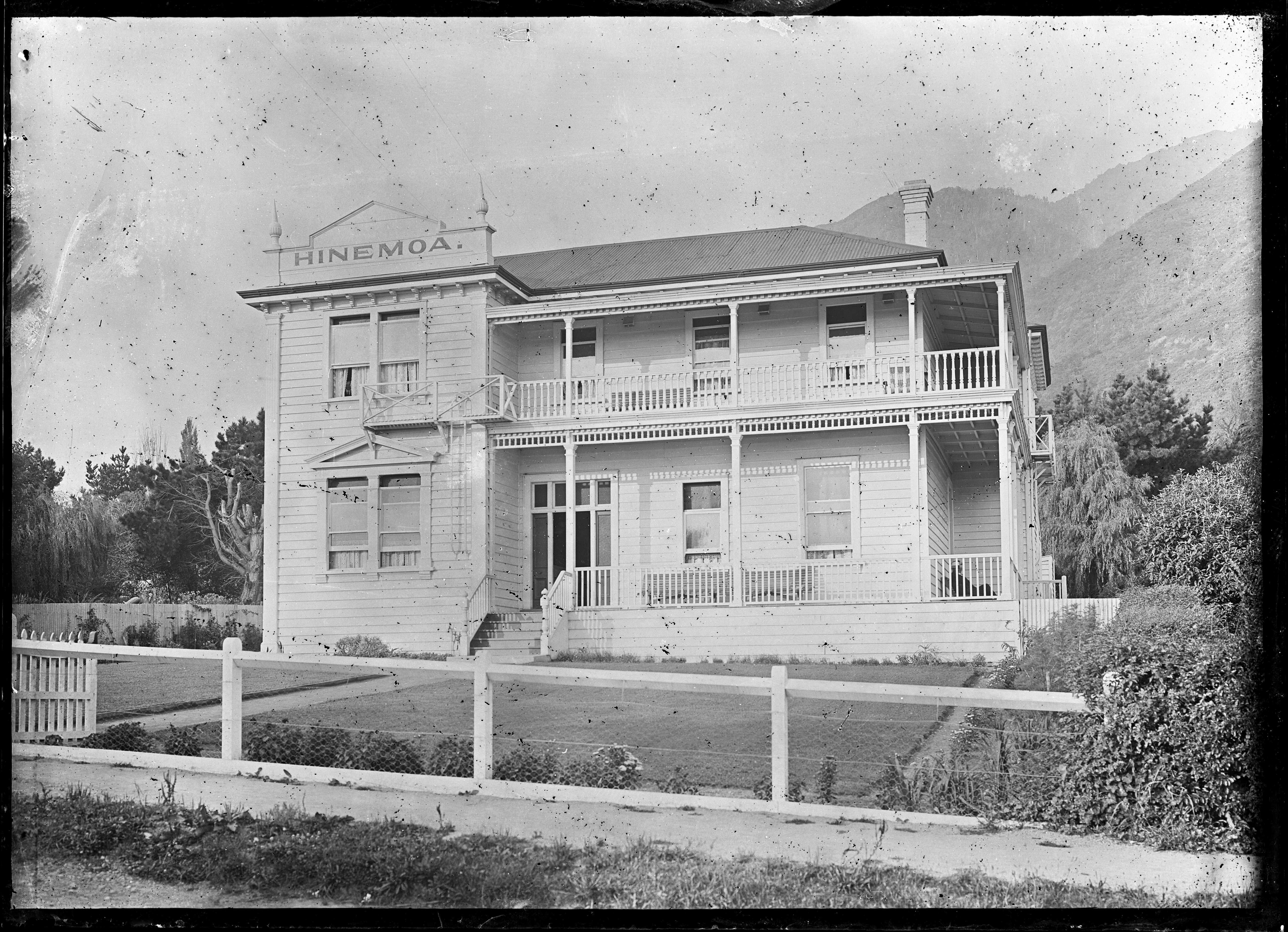 View of the Hinemoa Hotel at Te Aroha. Taken by Albert Percy Godber circa 1916.